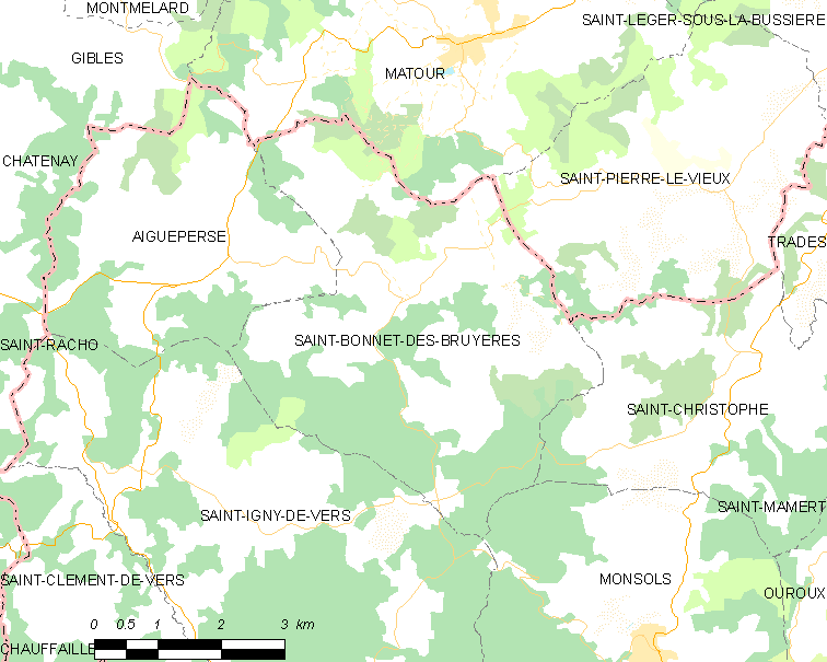 Map of French municipality